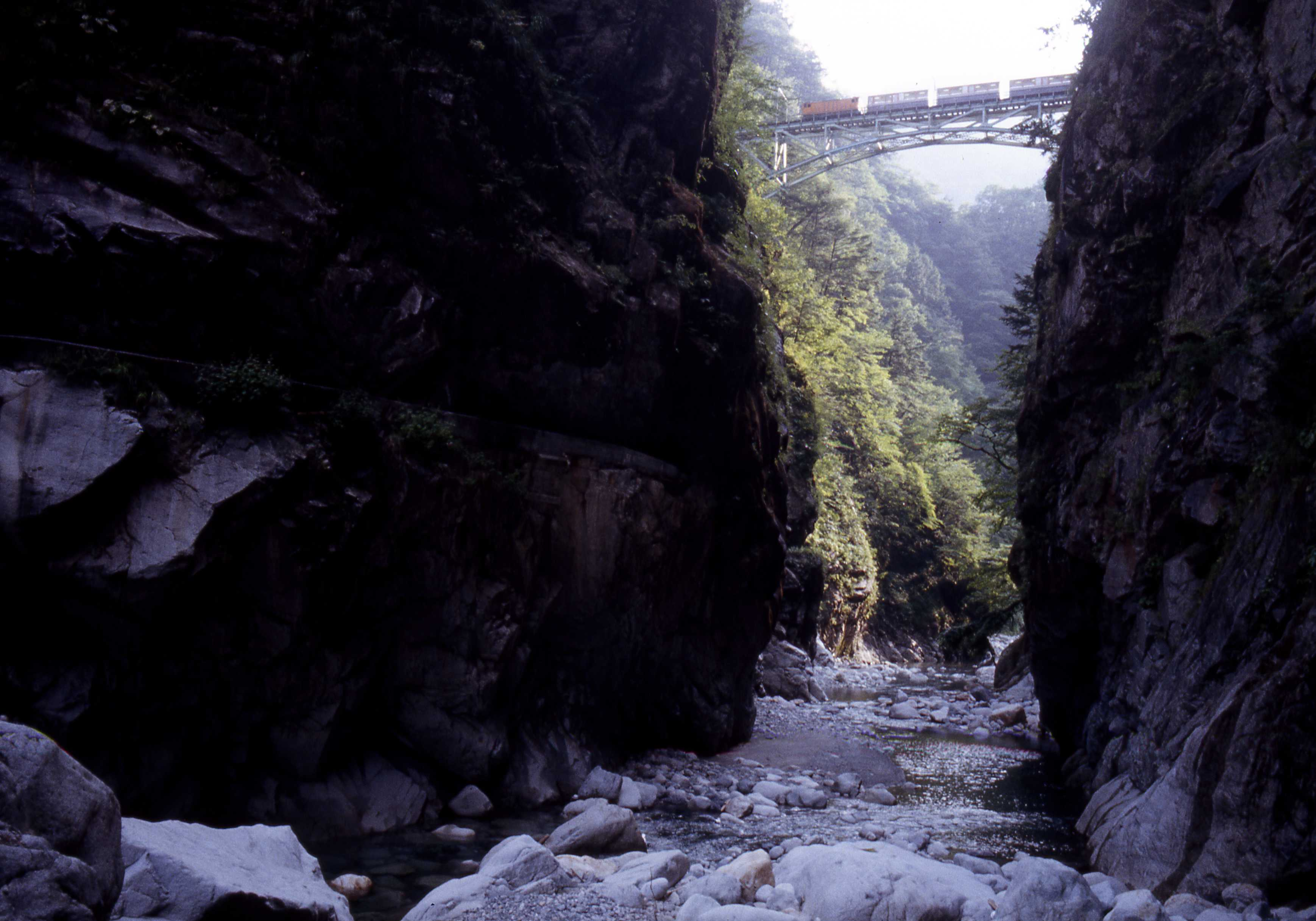 Kurobe Gorge Railway Bridge near Kuronagi